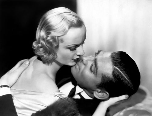 Carole Lombard & Clark Gable taken for film No Man of Her Own (1932). See also film still. No copyright notice.